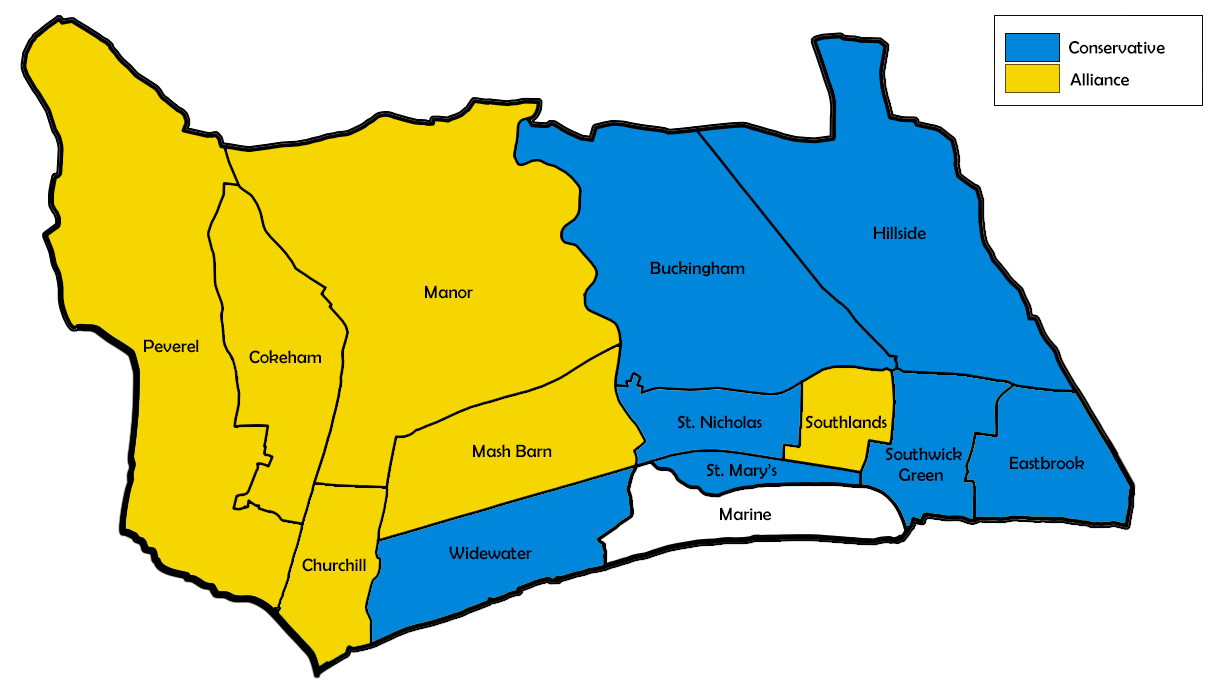 Ward map of Adur council with political colouring for the 1983 election.